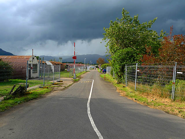 Entrance to Cultybraggan Camp Cultybraggan was built as a POW camp for the most dangerous German prisoners in WW2. After the war it became an army training camp and in the 1970's a nuclear bunker was built on the site. The camp was recently bought by the local community after being closed by the army.